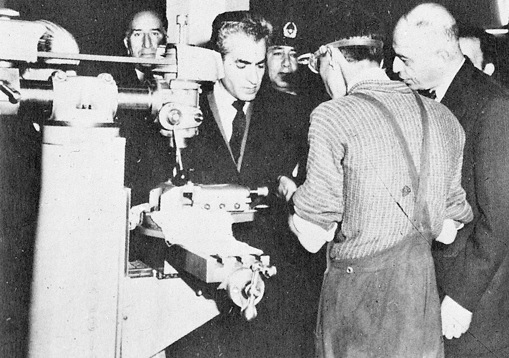 Shah Mohammad Reza Pahlavi visits a factory, 1955